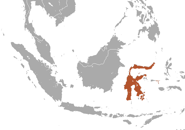 Sulawesi Naked-backed Fruit Bat (Dobsonia exoleta) range